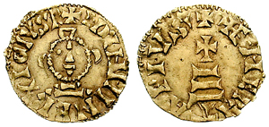 Visigoths in Spain. Erwig. 680-687 AD. AV Tremissis (1.43 gm). Emerita (nowdays Mérida) mint. +ID IN M N ERVIGIVS RX, facing bust of Christ with cross behind head +EMERITA PIVS, cross potent of three steps. Miles 415a; MEC 267; Heiss 5; Chaves 317. VF, slightly ragged edge. Rare. Unusual stylistic variant. Ex Classical Numismatic Group Auction 55 (13 September 2000), lot 1501. This exceptional type which is clearly the facing head of Christ precedes the introduction of the celebrated bust of Christ types of Justinian II from about 692 (cf. MIB III, 8-9). Both issues reflect the theological polemic of the time, how and if to represent Christ in art. Iconoclasm in the Byzantine east seems to have been provoked by the condemnation of Monothelitism by the 6th Ecumenical Council of 680 at Constantinople. The Visigoths at first served the empire with reasonable fidelity. It was not until the reign of Suinthila (621-631) that the final expulsion of the imperial prefecture, set up in Athanagild's time in southern Spain, was effected. The fourth council of Toledo, presided over by St. Isidor during reign of Sisenand (631-636), completed the subjection of the now decadent monarchy and passed government to ecclesiastical authority.